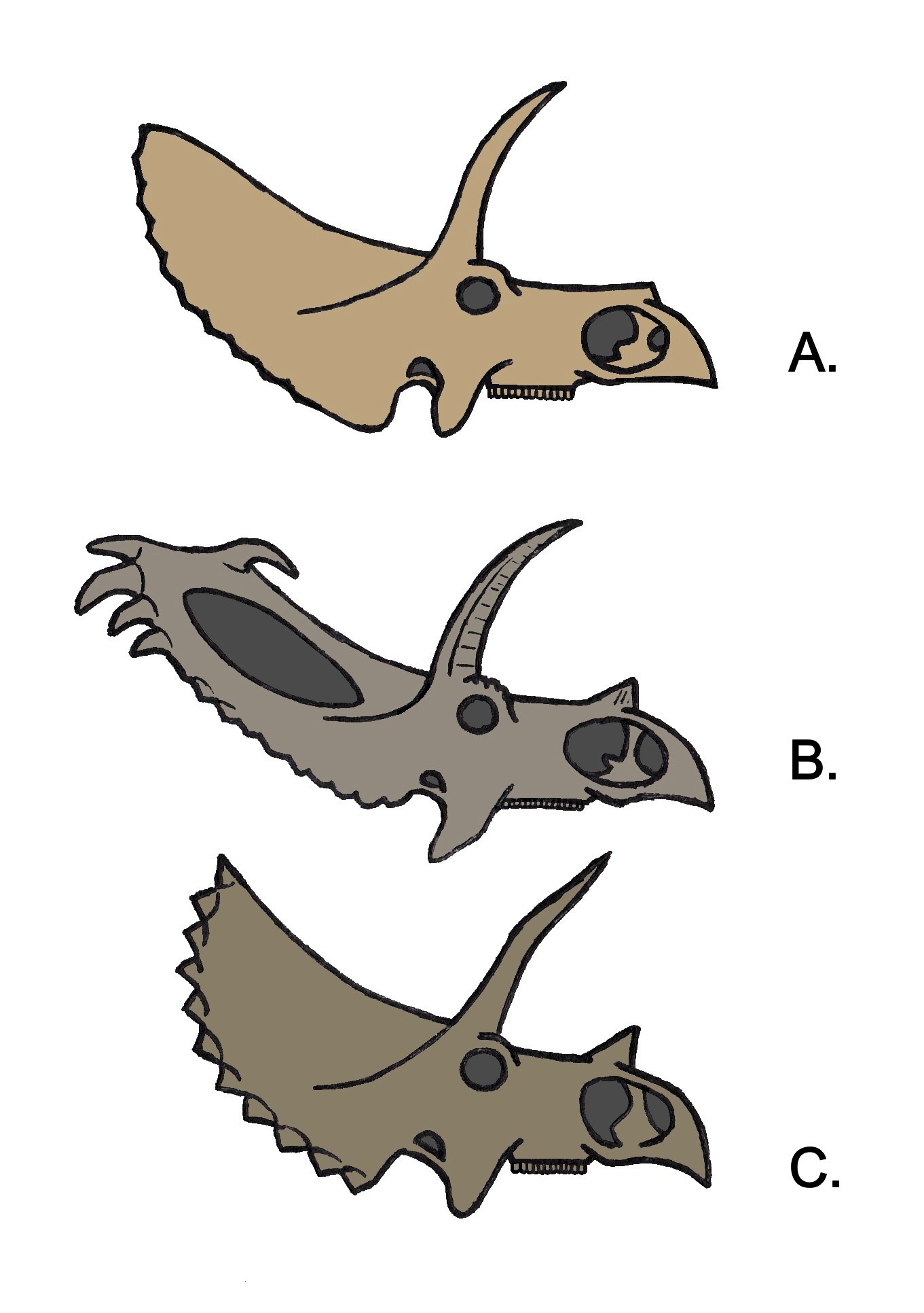 Comparison between skulls of three different genus of ceratopsid dinosaurs ( A,Eotriceratops, B, Pentaceratops, C, Triceratops ). except for the frill, Eotriceratops skull is very similar to That of Pentaceratops ( the shape of the snout and the beak, and the horns ). The frill is, like that of Triceratops, solid, without the large fenestrae seen in Pentaceratops.